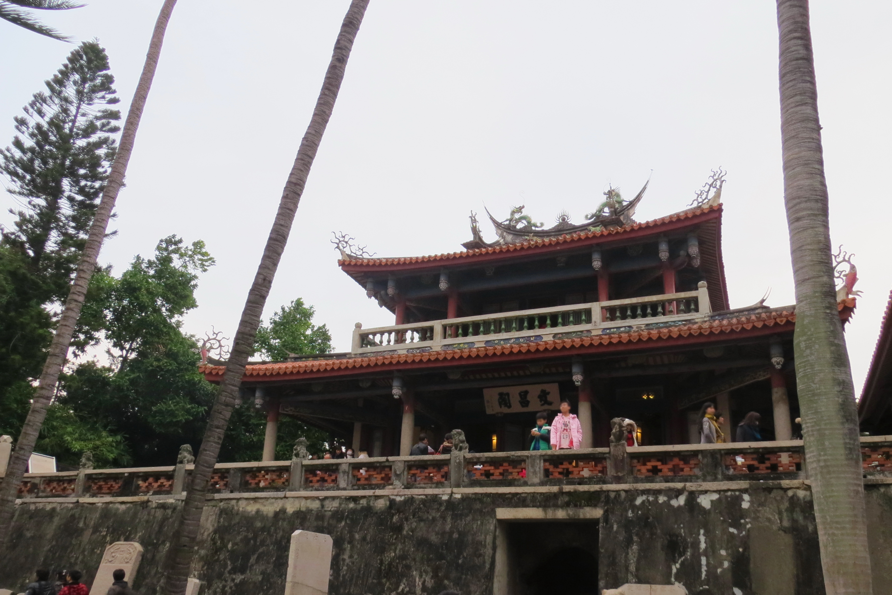 Wuchang Pavilion in the Fort Provintia, Tainan, Taiwan.